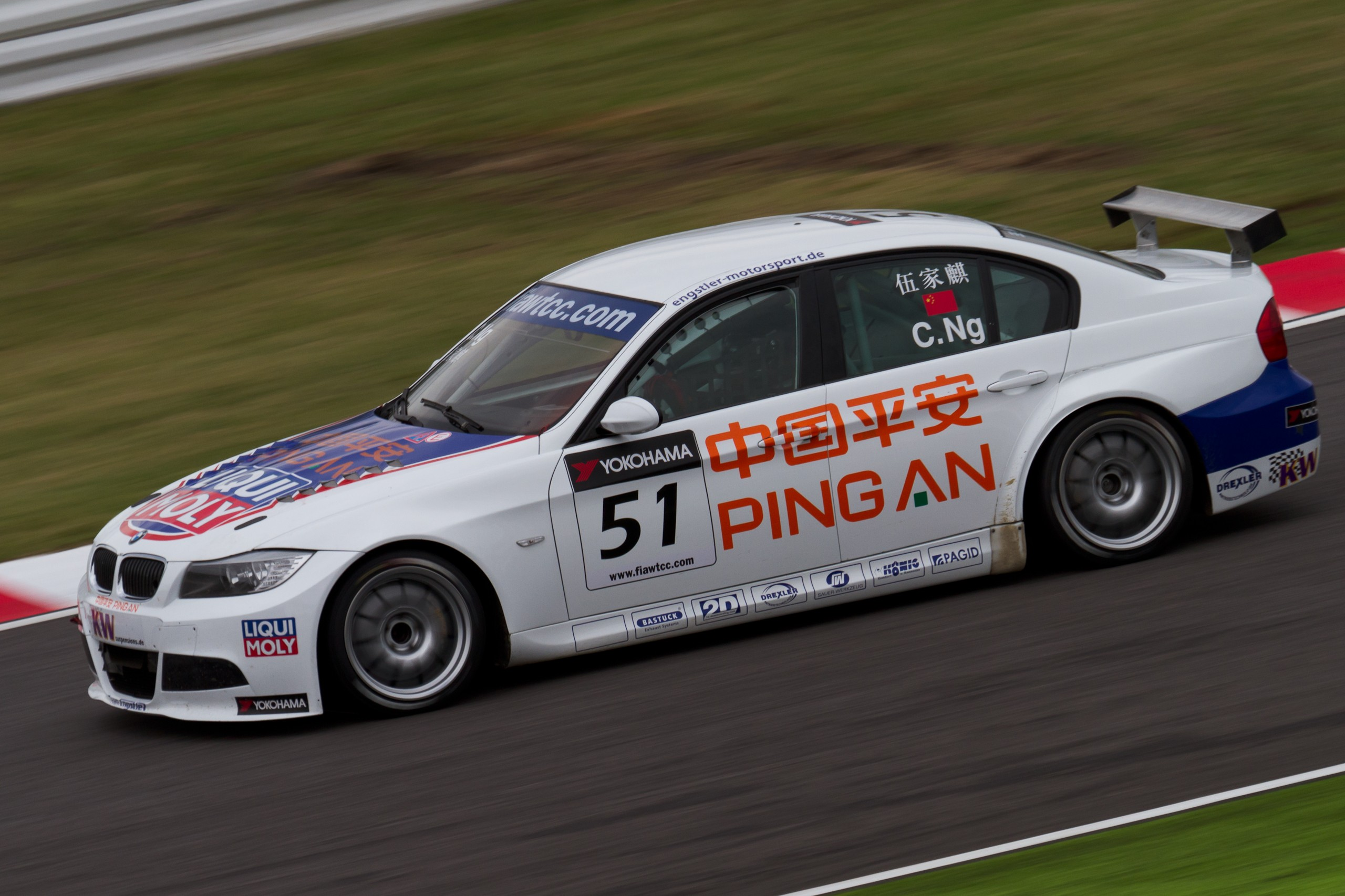 World Touring Car Championship 2011 Race of Japan: Charles Ng (Liqui Moly Team Engstler) during the 2nd practice session on Saturday.